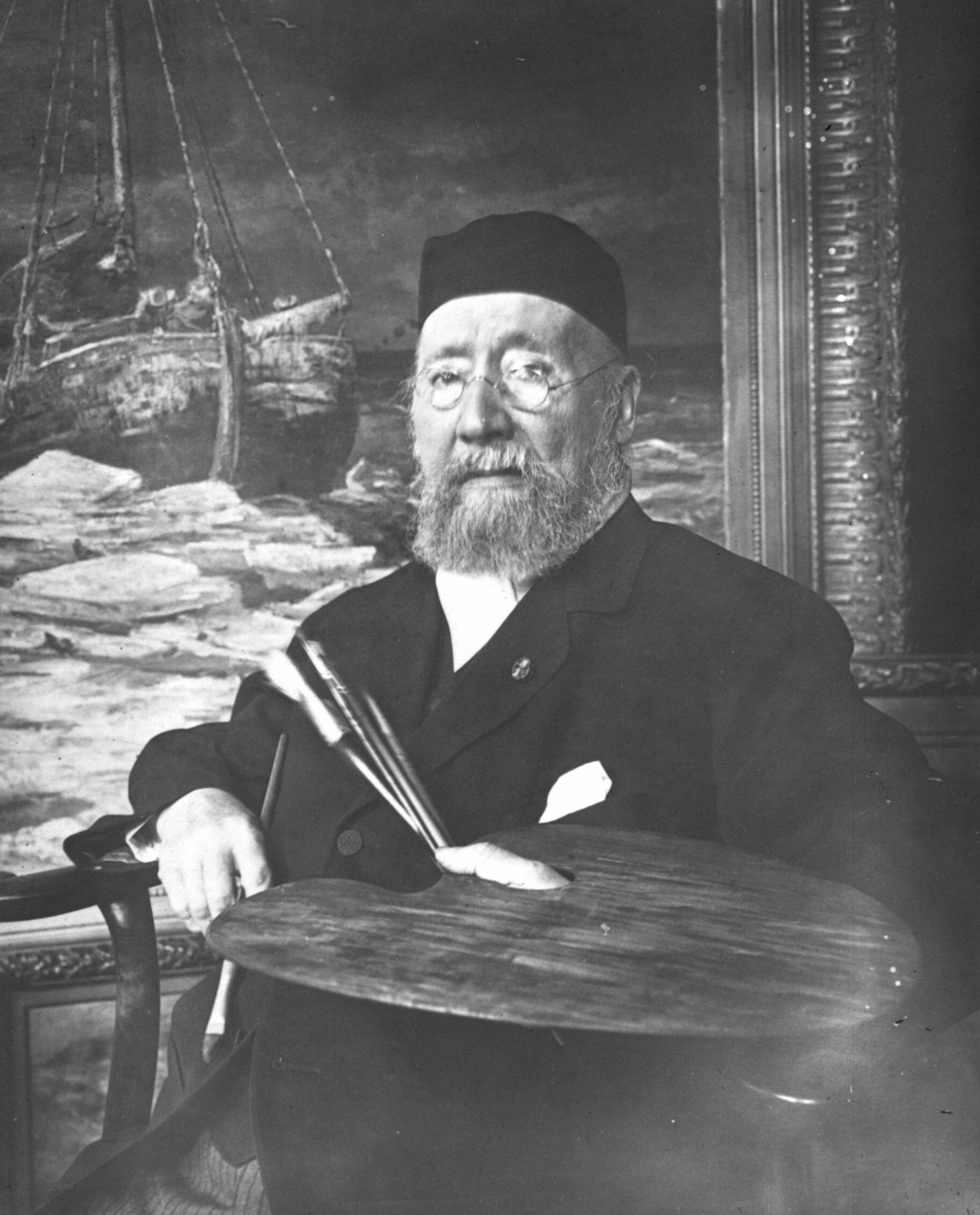 Dutch painter Hendrik Willem Mesdag (1831-1915)